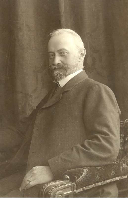 Portrait of Gustaf Kossinna, 1907